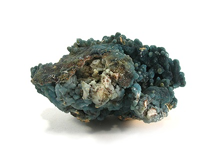 Plumbogummite Locality: Yangshuo Mine, Yangshuo County, Guilin Prefecture, Guangxi Zhuang Autonomous Region, China (Locality at ) Size: small cabinet, 7.7 x 4.4 x 4 cm PLUMBOGUMMITE A superb small cabinet plumbogummite specimen, for its rich color, completeness all around, and 3-dimensional form. It is a rich specimen with a velvety look to it. Very nice "fingers" representing mimetite crystals that are coated, and partially pseudomorphed, to plumbogummite.